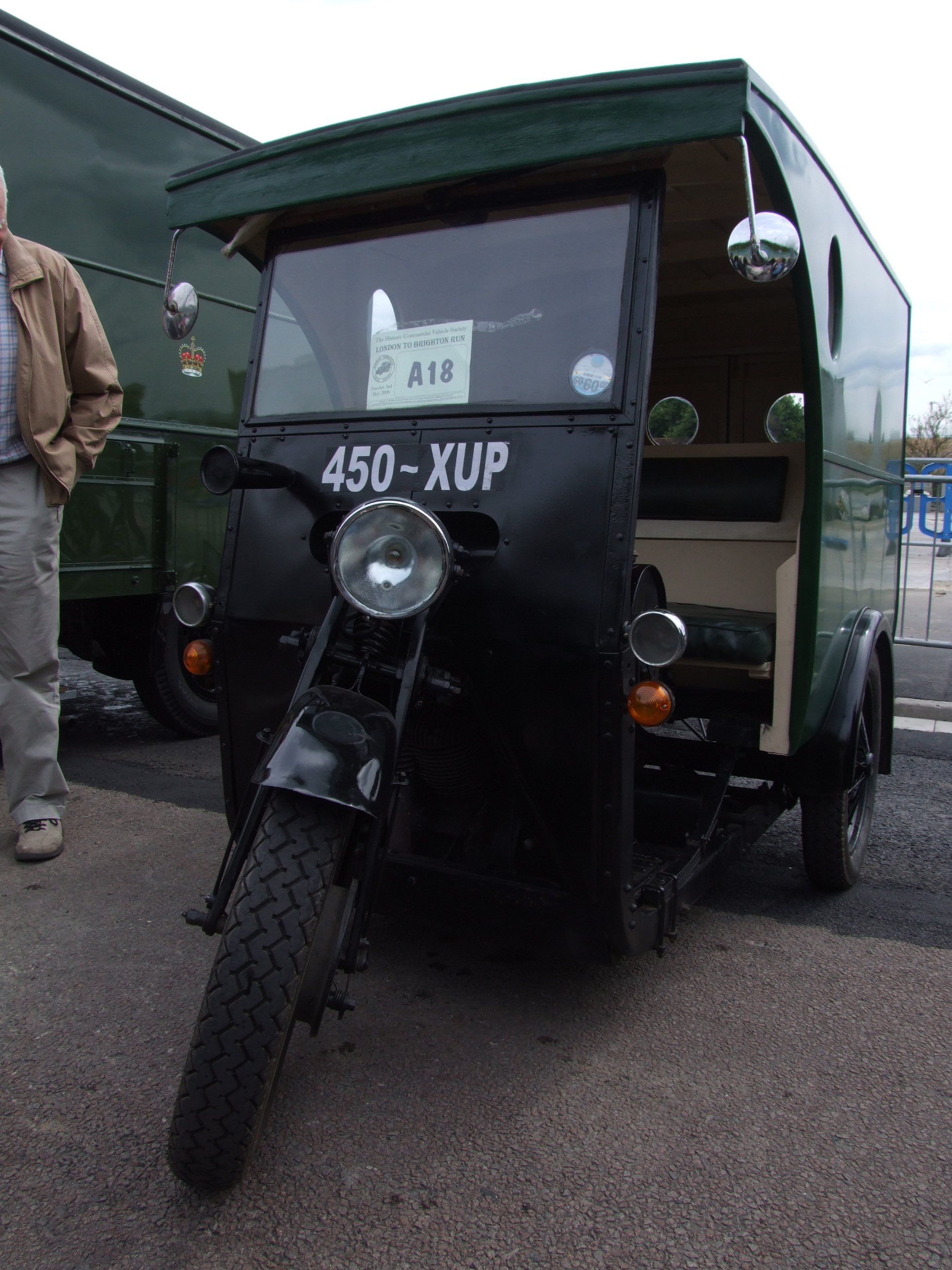 .. wood leather and rubber delivery van! 1932 Raleigh LDV3 Light Van